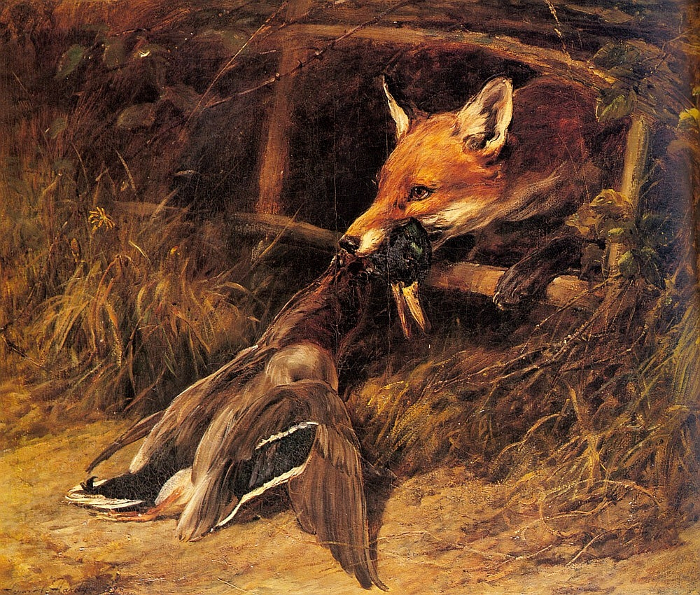 Returning To The Foxs Lair